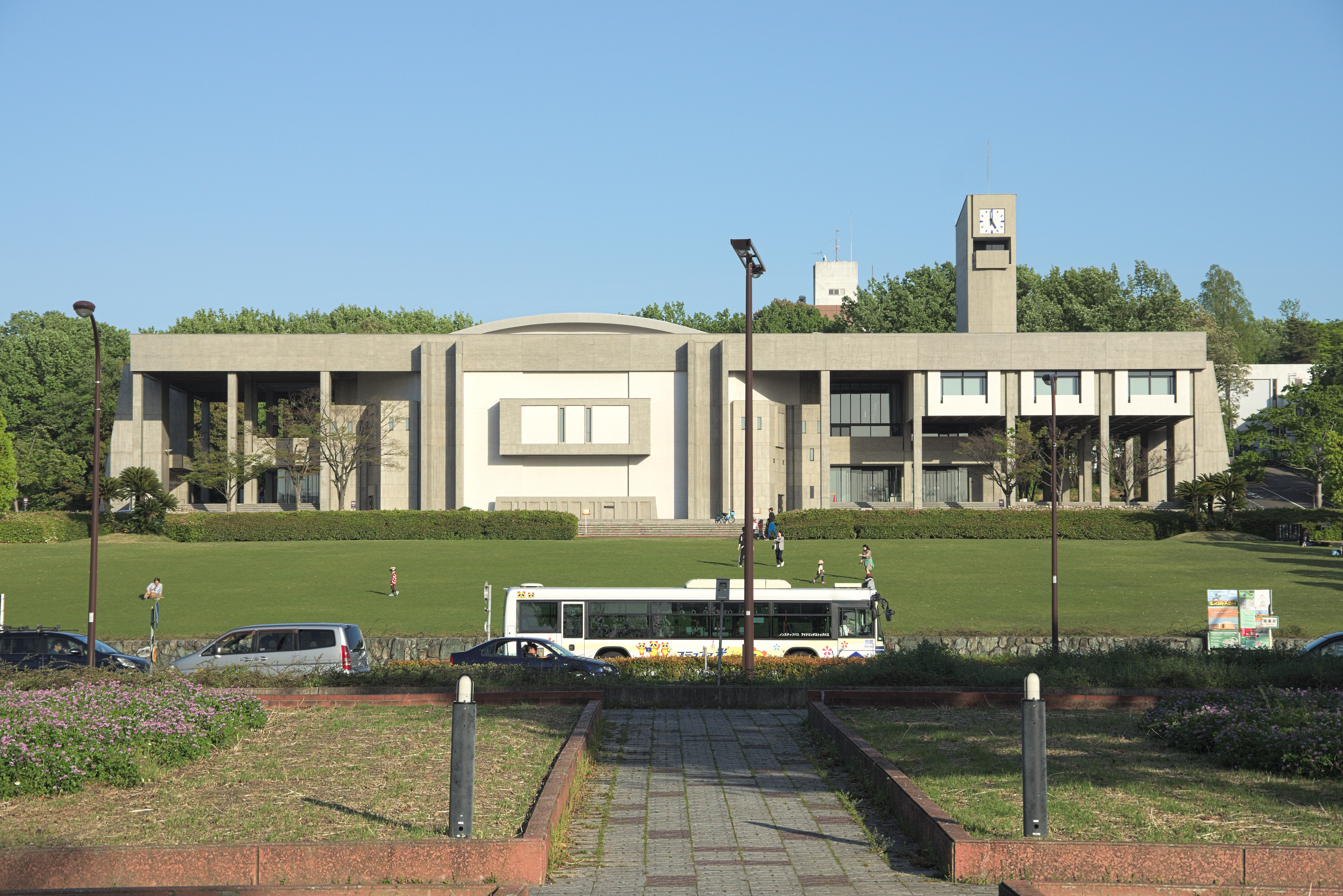 Nagoya, Higashiyama Campus of Nagoya University. Toyoda Auditorium.